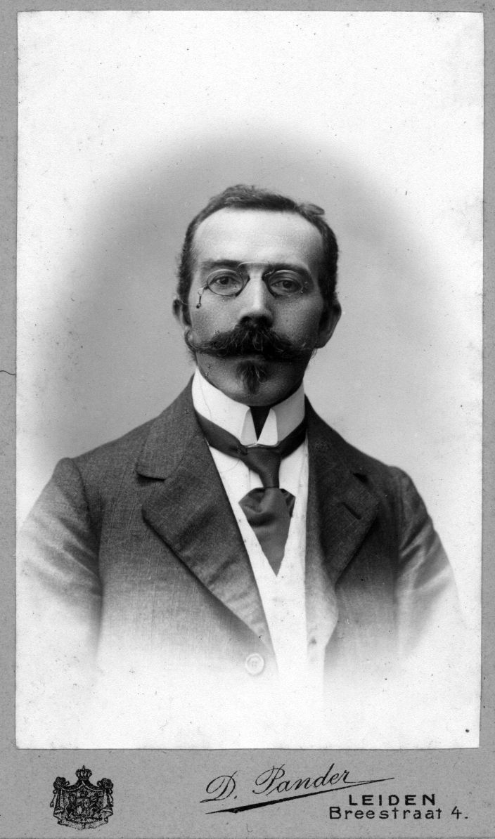 Josef Markwart (born: Josef Marquart, Reichenbach, Germany). German professor in linguistics (persian, armenian). Photo was taken during his stay at Leiden, Netherlands, at the "Rijksmuseums voor Volkenkunde".